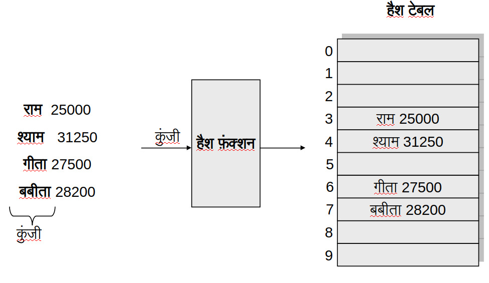 Hash Table Illustration in Hindi